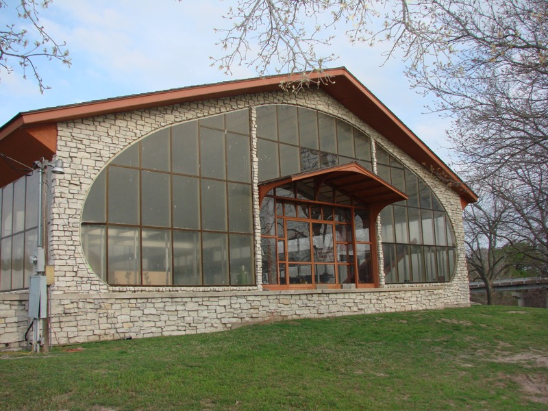 Creation Evidence Museum in Glen Rose, Texas: The new building under construction